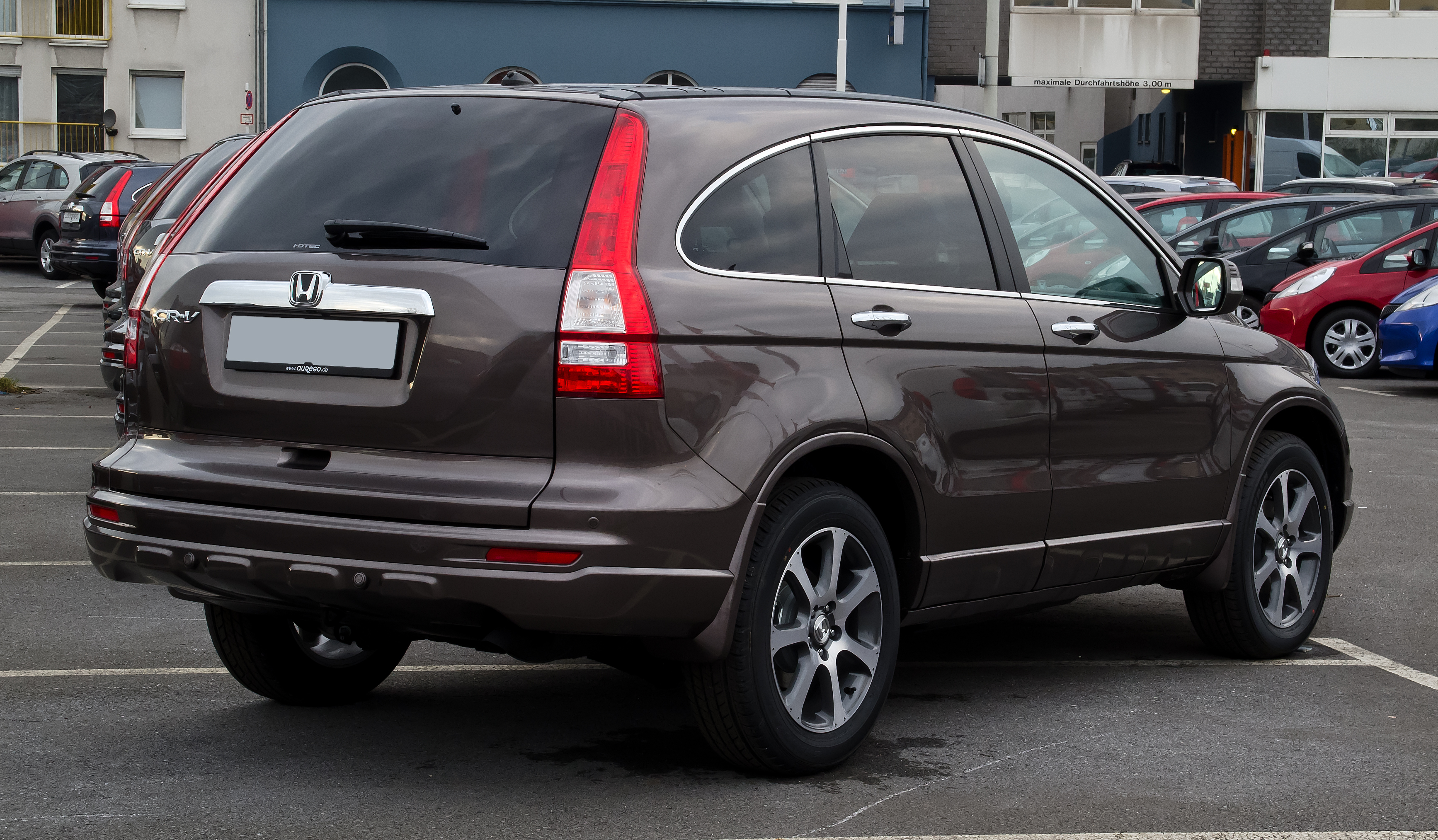 Honda CR-V 2.2 i-DTEC Executive 50 Jahre Edition (III, Facelift)